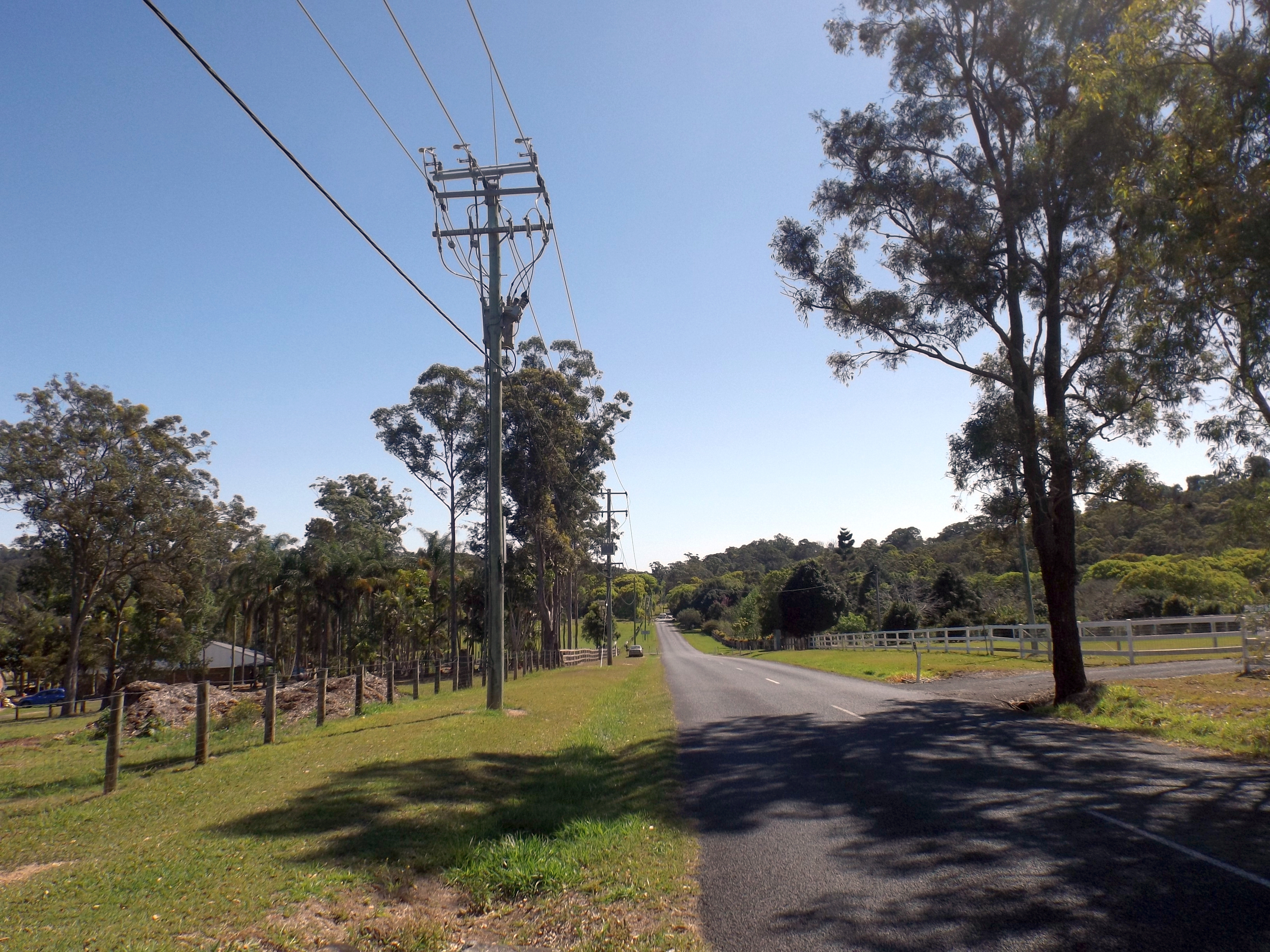 Photo of Hotham Creek Road at Willow Vale, Gold Coast City, Queensland, Australia.